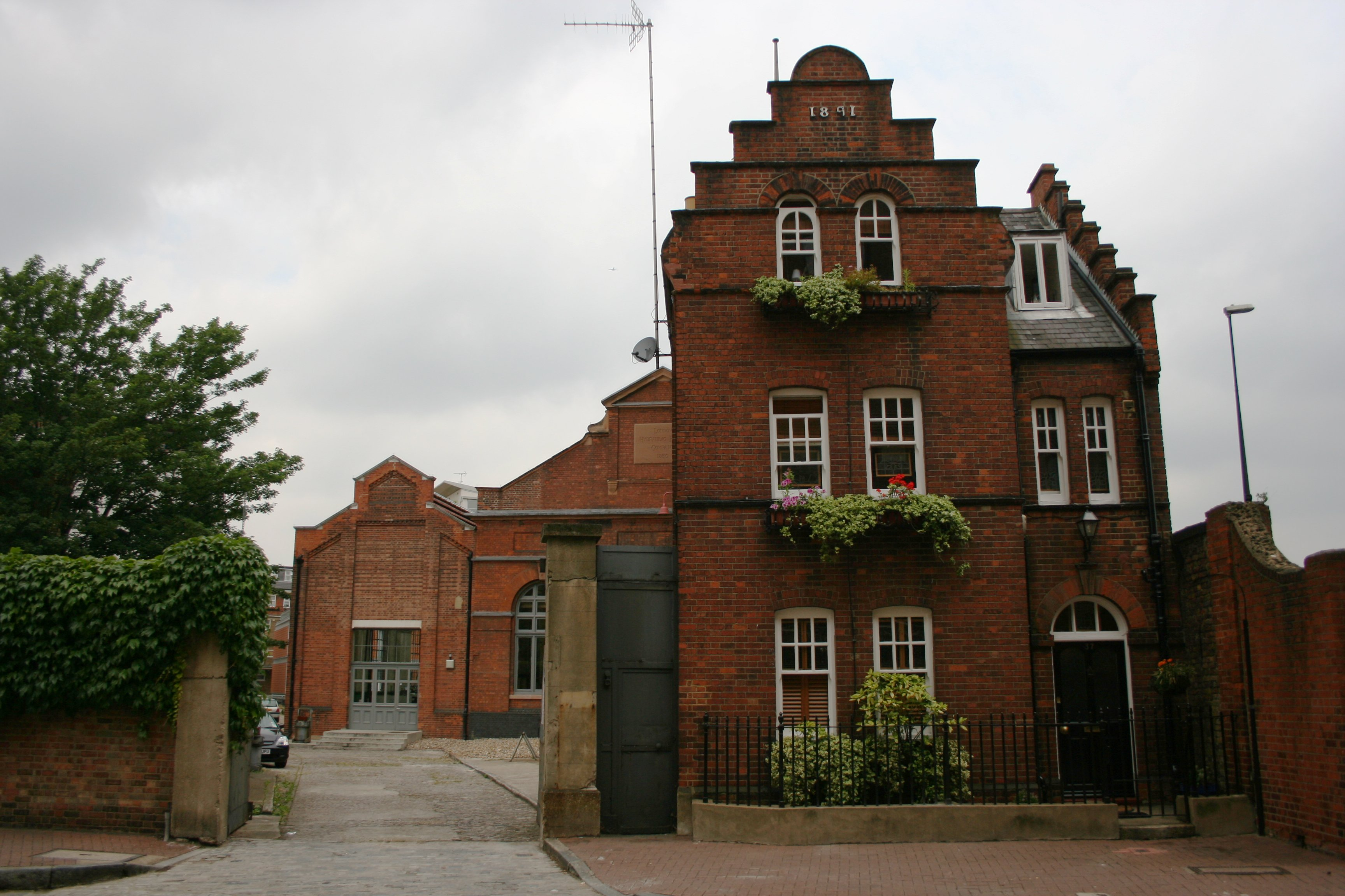 Wapping Hydraulic Power Station, of the London Hydraulic Power Company. Built in 1890; closed in 1977, then converted to the Wapping Project, an arts centre.